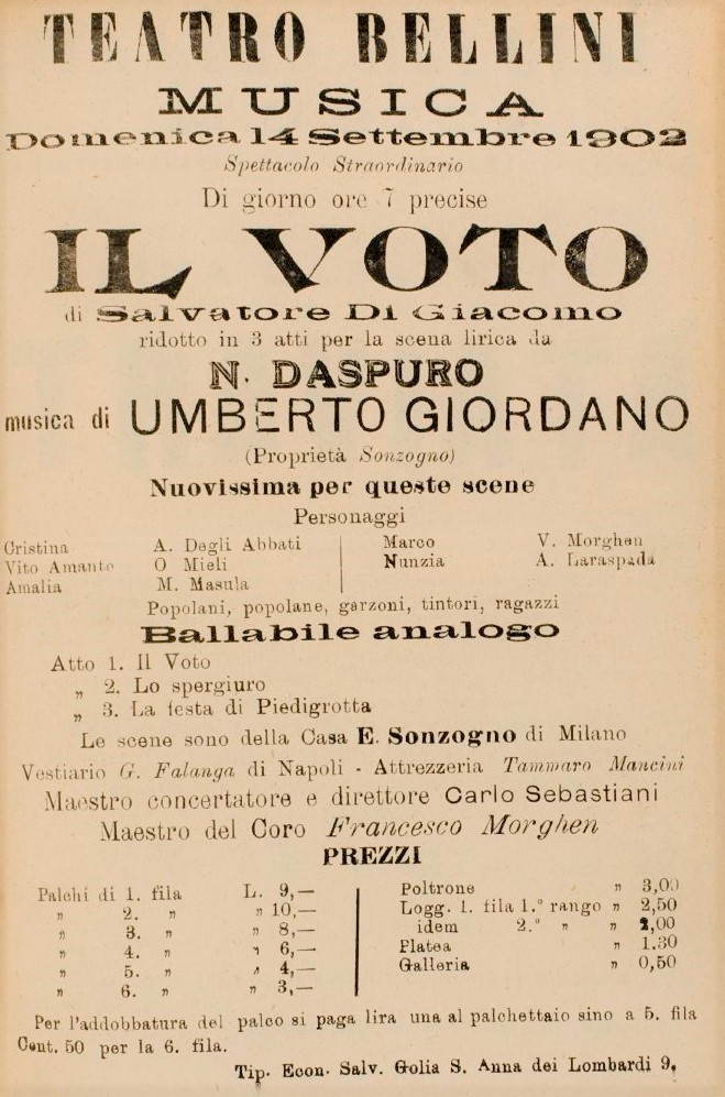 Poster advertising the performance of Umberto Giordano's opera Il voto a the Teatro Bellini in Naples. Il voto is a revised version of Giordano's 1892 opera Mala vita